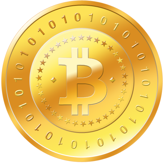 This is a digital graphic of the bitcoin digital currency.